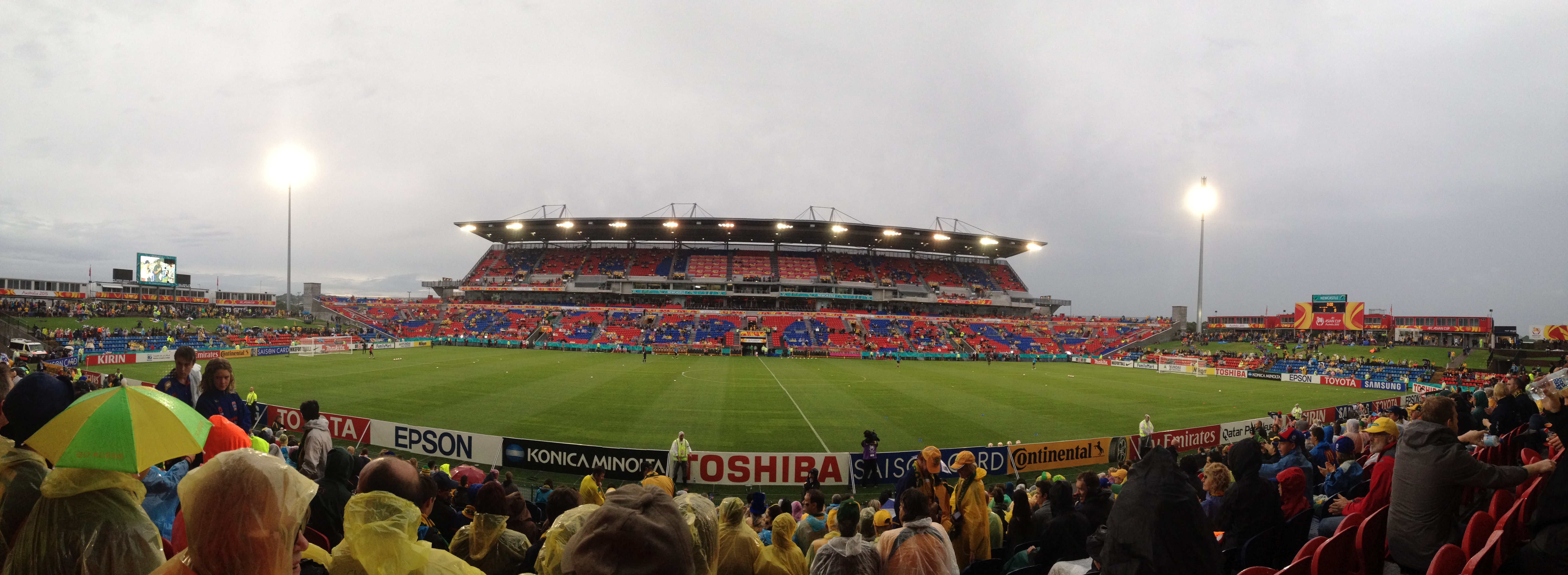 Hunter Stadium in Newcastle in daytime, during the 2015 AFC Asian Cup semi-final between Australia and the UAE.